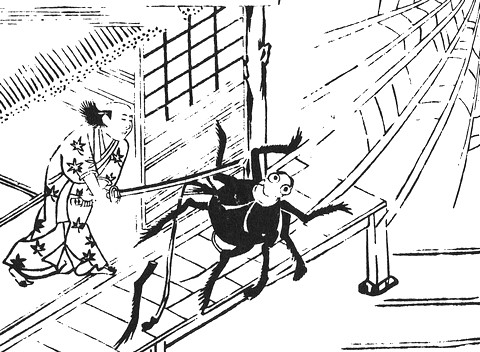 Ōgumo (大蜘蛛, a giant spider) from the Sorori-monogatari (曾呂利物語)